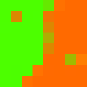 Image used as an example